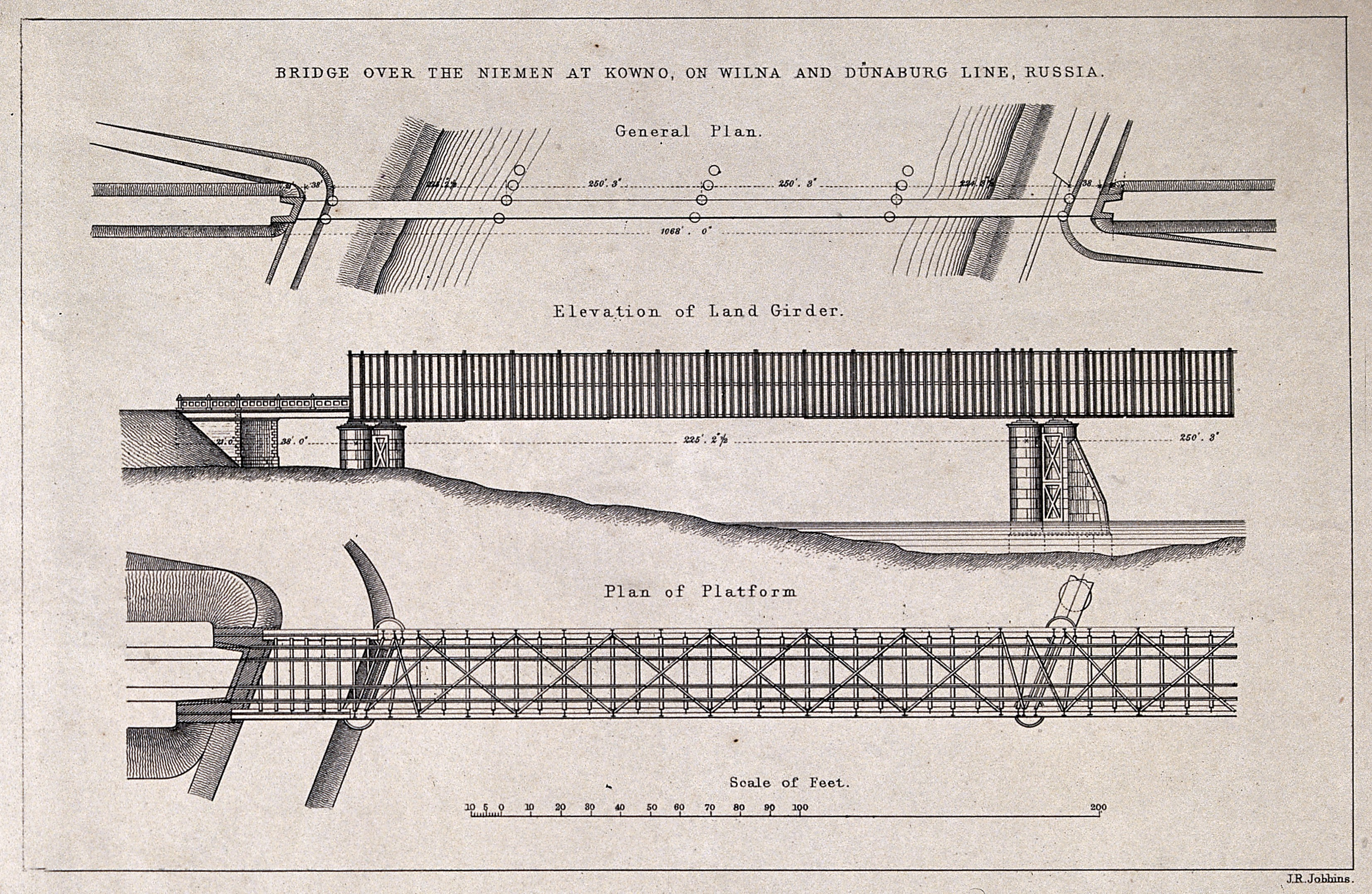 Civil engineering: plan and elevation of the Kowno railway bridge, Russia. Lithograph by J. R. Jobbins. Iconographic Collections Keywords: John Richard Jobbins